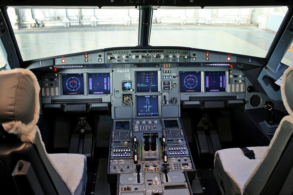 New A320 for S7.